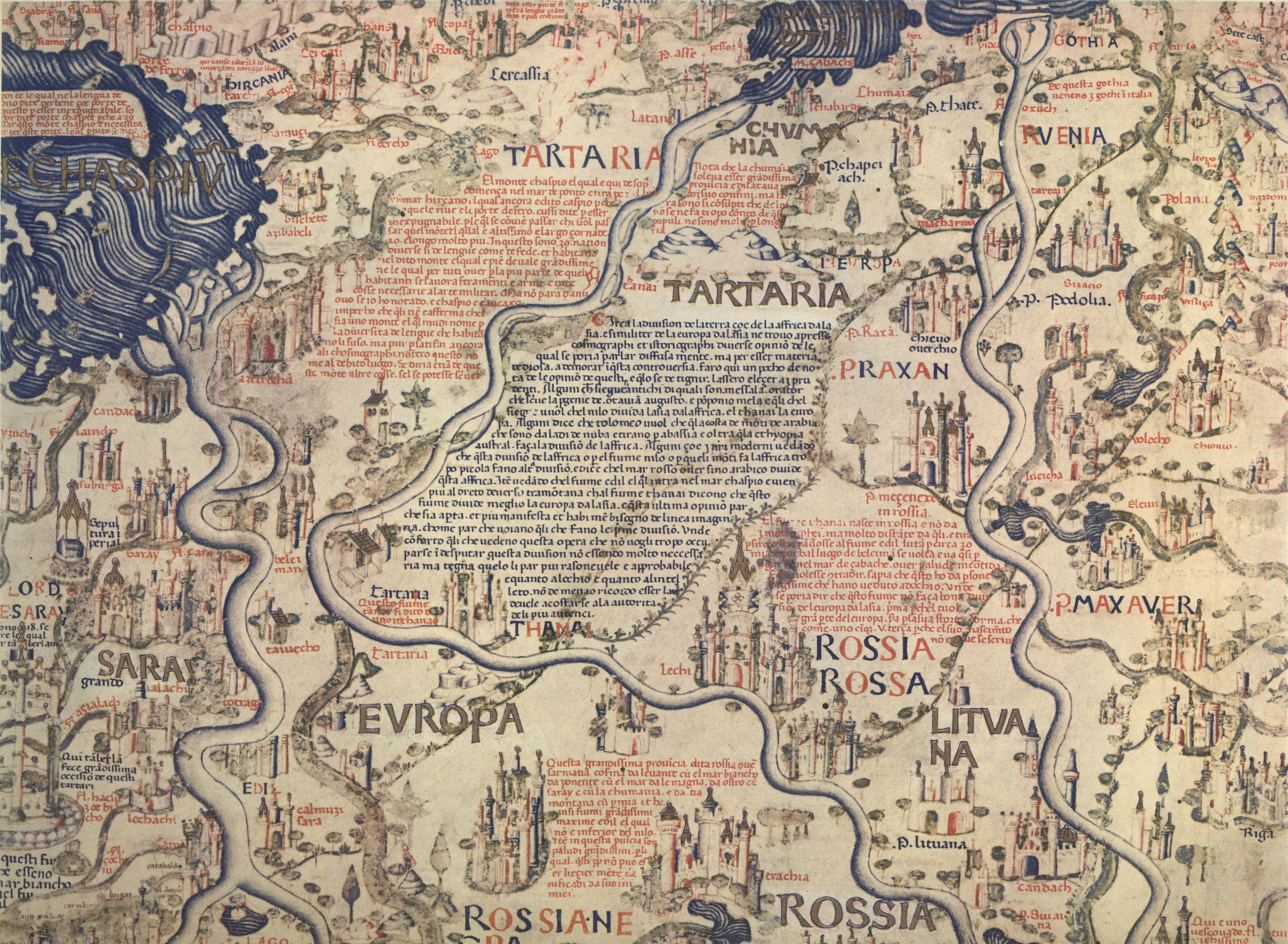 The Fra Mauro map, detail Rossia. 1459